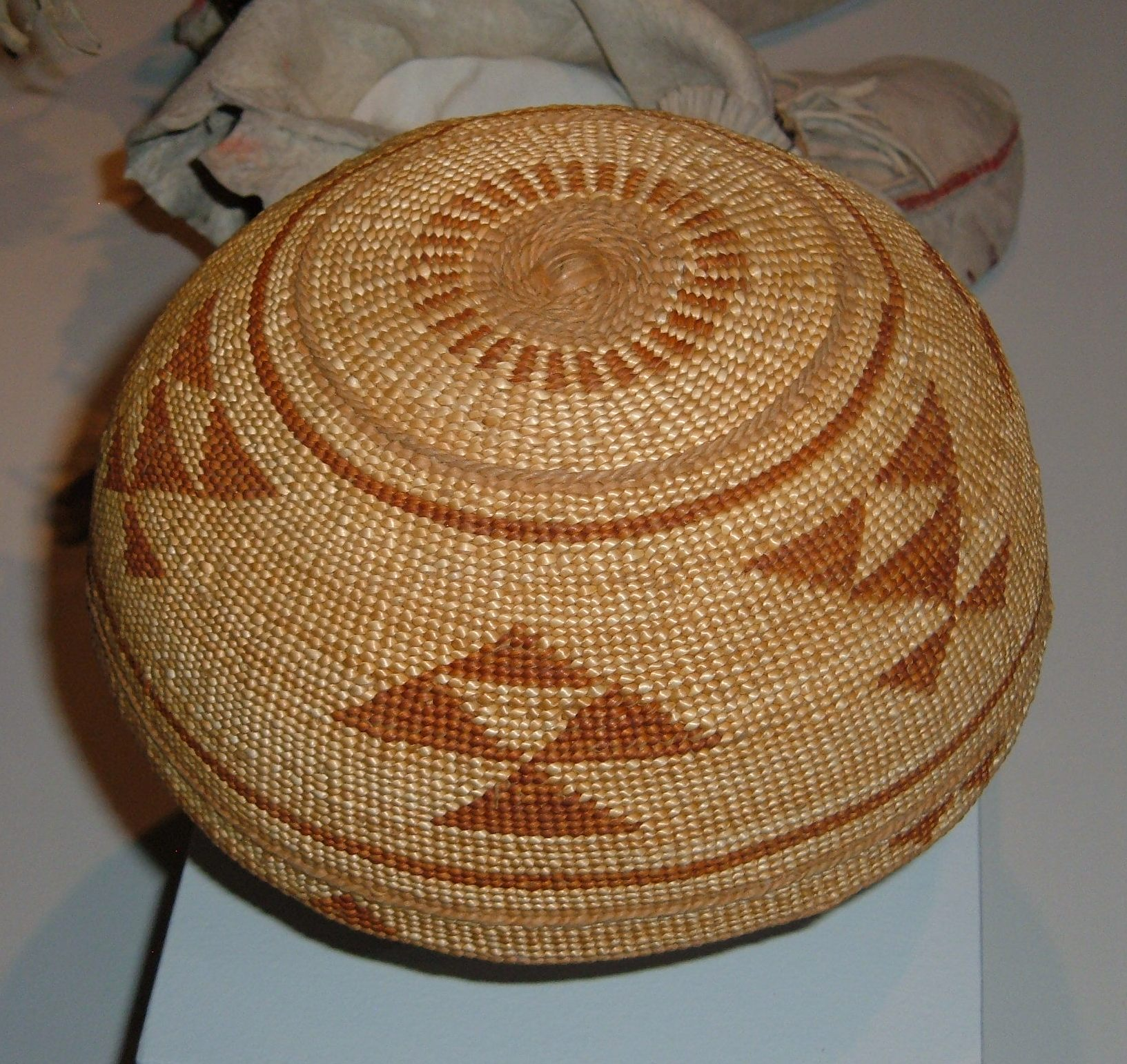 A Hupa woman's cap (late 1800s) made of woven bear grass and conifer roots, northern California. On display at the Iris & B. Gerald Cantor Center for Visual Arts on the Stanford University campus in Stanford, California.